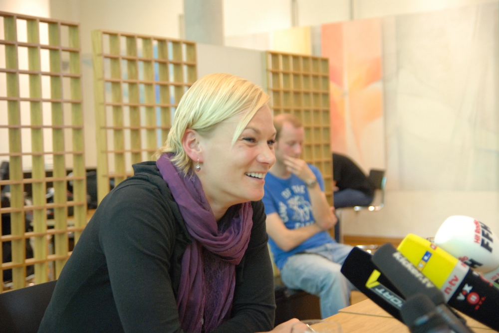 Facebook fürs Pfeifen: WM-Schiedsrichterin Bibiana Steinhaus berichtete heute bei einem Pressegespräch beim DFB, dass sich die Schiedsrichterinnen und ihr Ausbildungspersonal weltweit über ein spezielles FIFA-Internetportal vernetzt haben. Das ganze Interview gibts demnächst auf schulen-ans-netz.de.